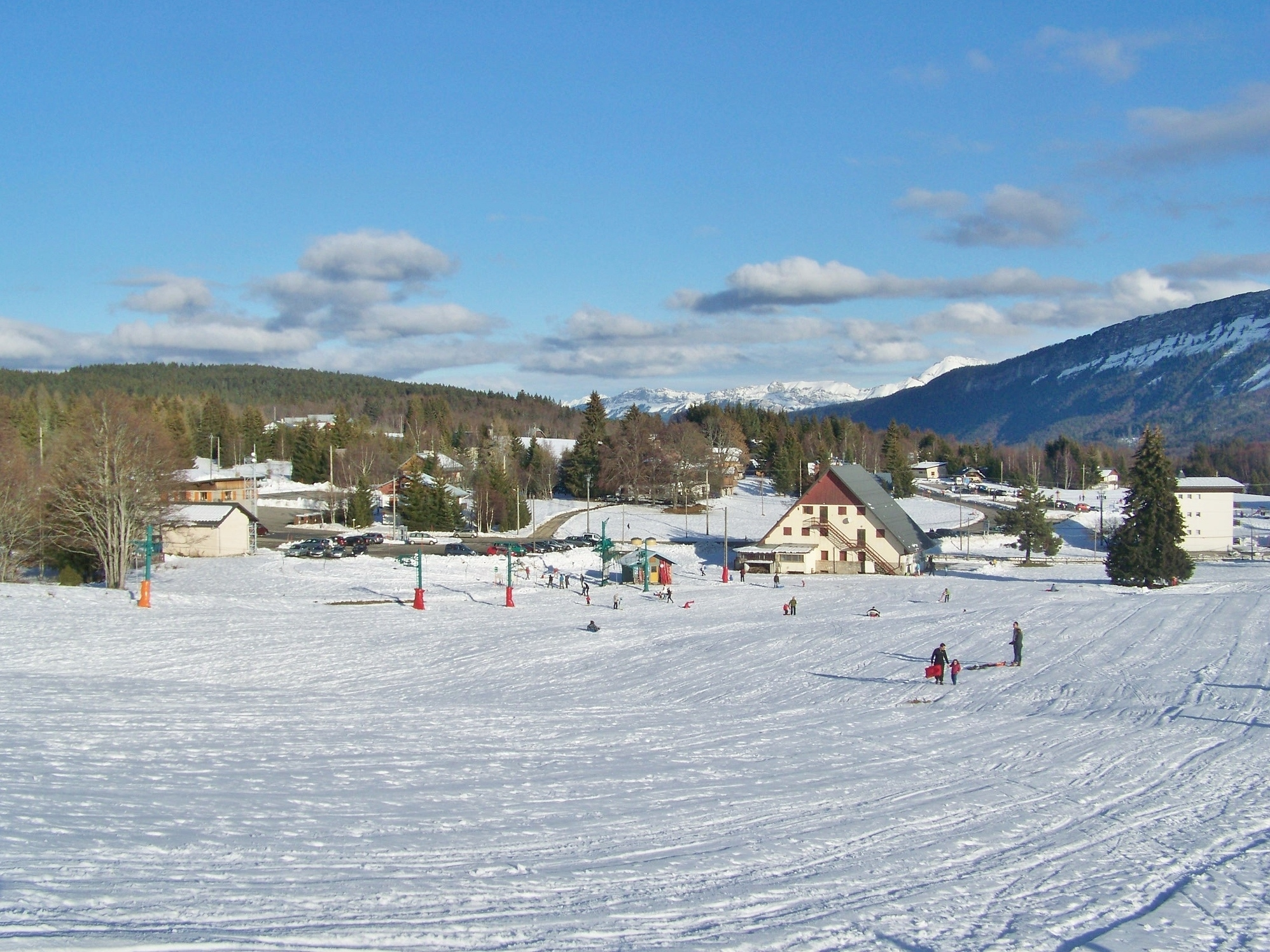 Sight of La Féclaz village and ski resort, in Savoie, France.